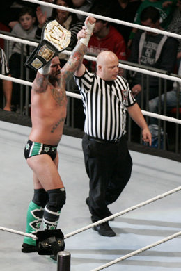 Professional wrestling referee Jack Doan in the ring with WWE Champion CM Punk following a match in August 2012. Cropped from original.